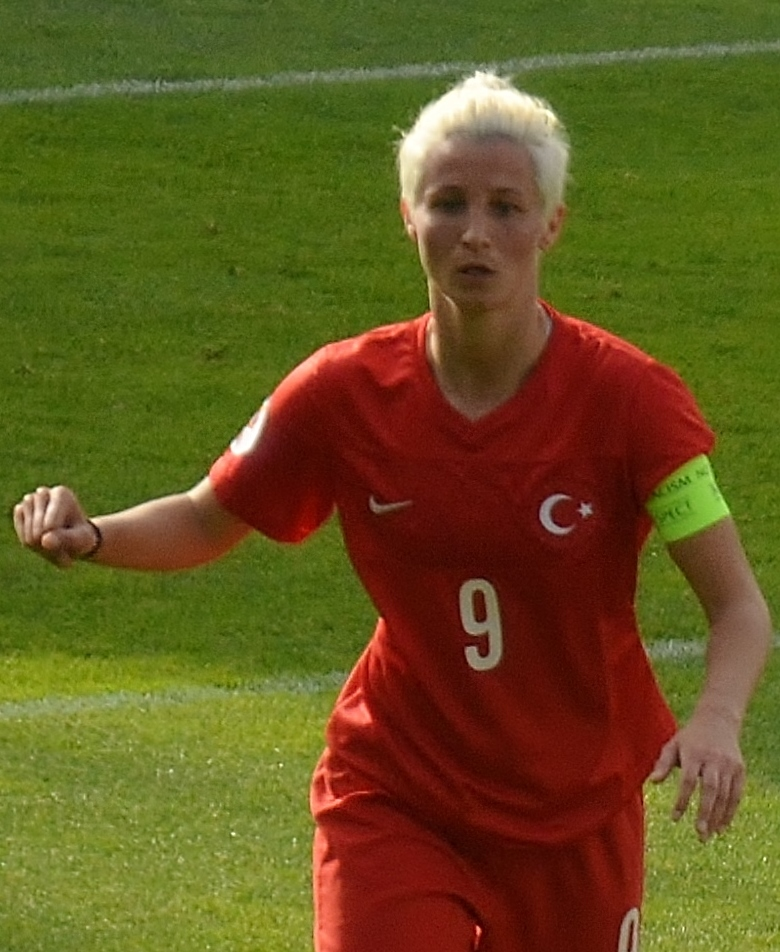 Esra Erol playing as captain for Turkey women's national at the UEFA Women's Euro 2017 qualifying Group 5 match against Germany in Istanbul, Turkey